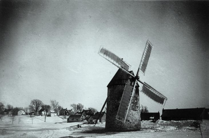 Photograph, Old wind mill, Verchères, QC, 1915, Anonymous. Silver salts on glass - Gelatin dry plate process - 20 x 25 cm